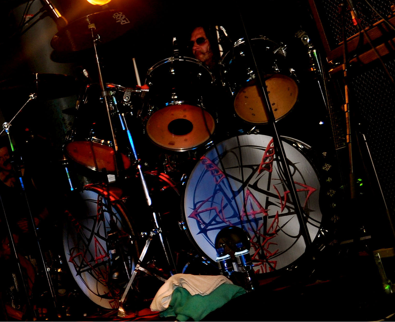 Drummer Abaddon performing live with Venom Inc.